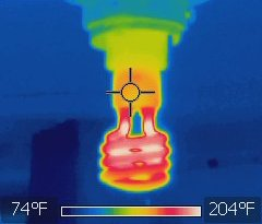 Thermal image of a helical fluorescent lanp. The lamp is 26 watts, and was on during the photographing.